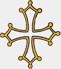 Bosonids